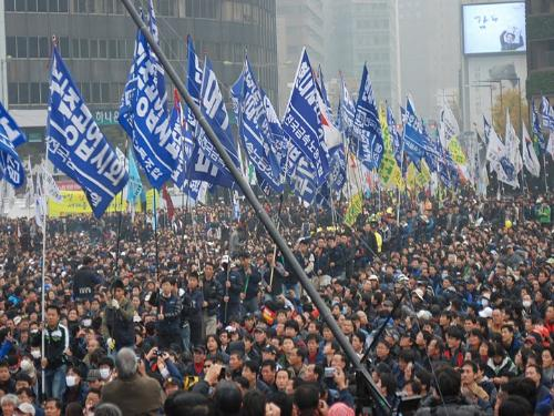 Demonstrators converged on downtown Seoul, South Korea Sunday for the first of a promised series of protests against the G20 leaders' summit. The labor rally took place in Seoul City Plaza near city hall.